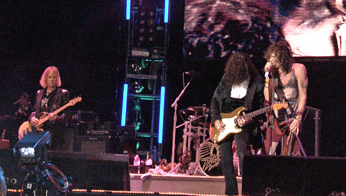 Aerosmith Live in Buenos Aires Elby 2007